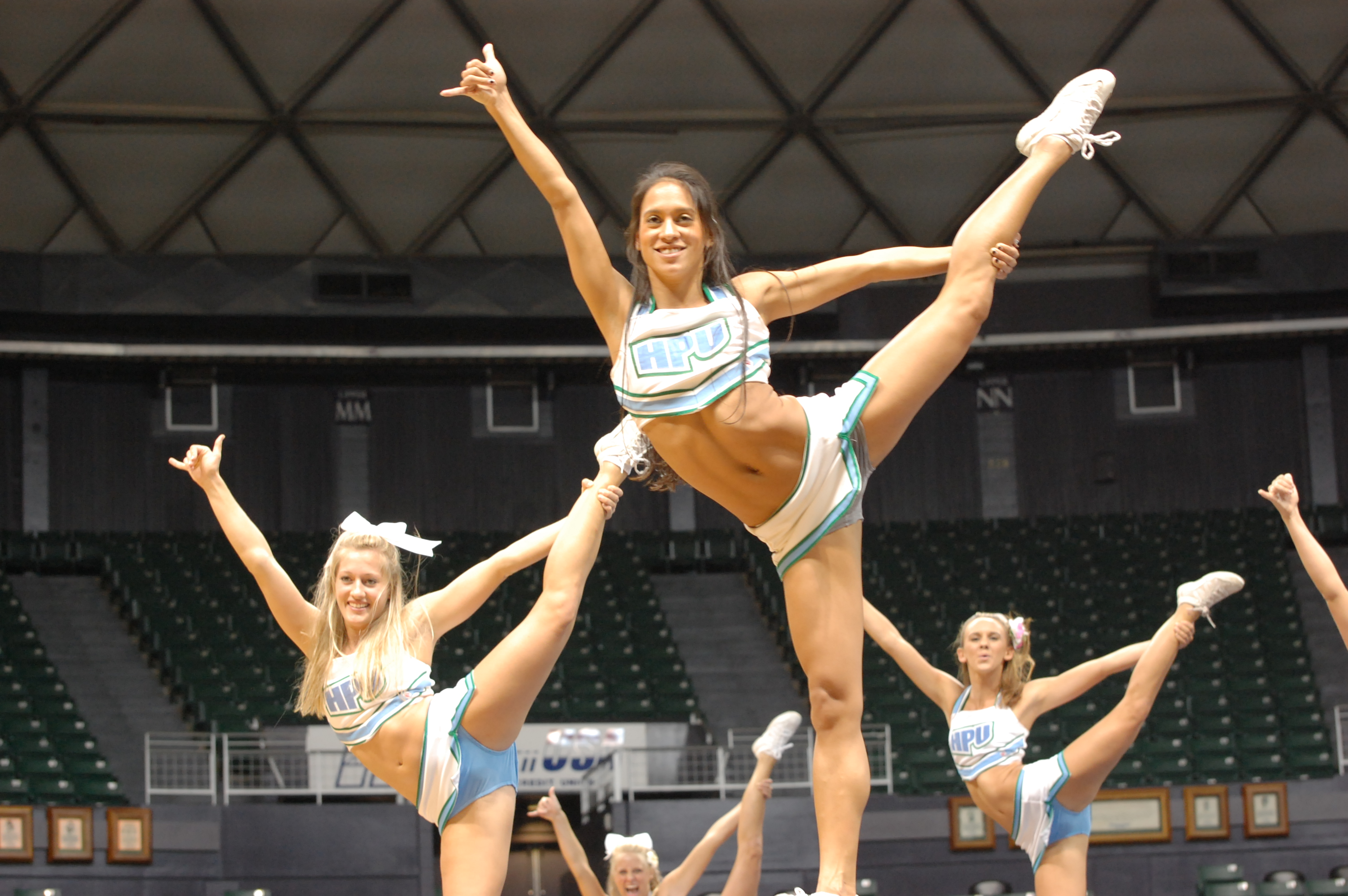 Scale Stunt